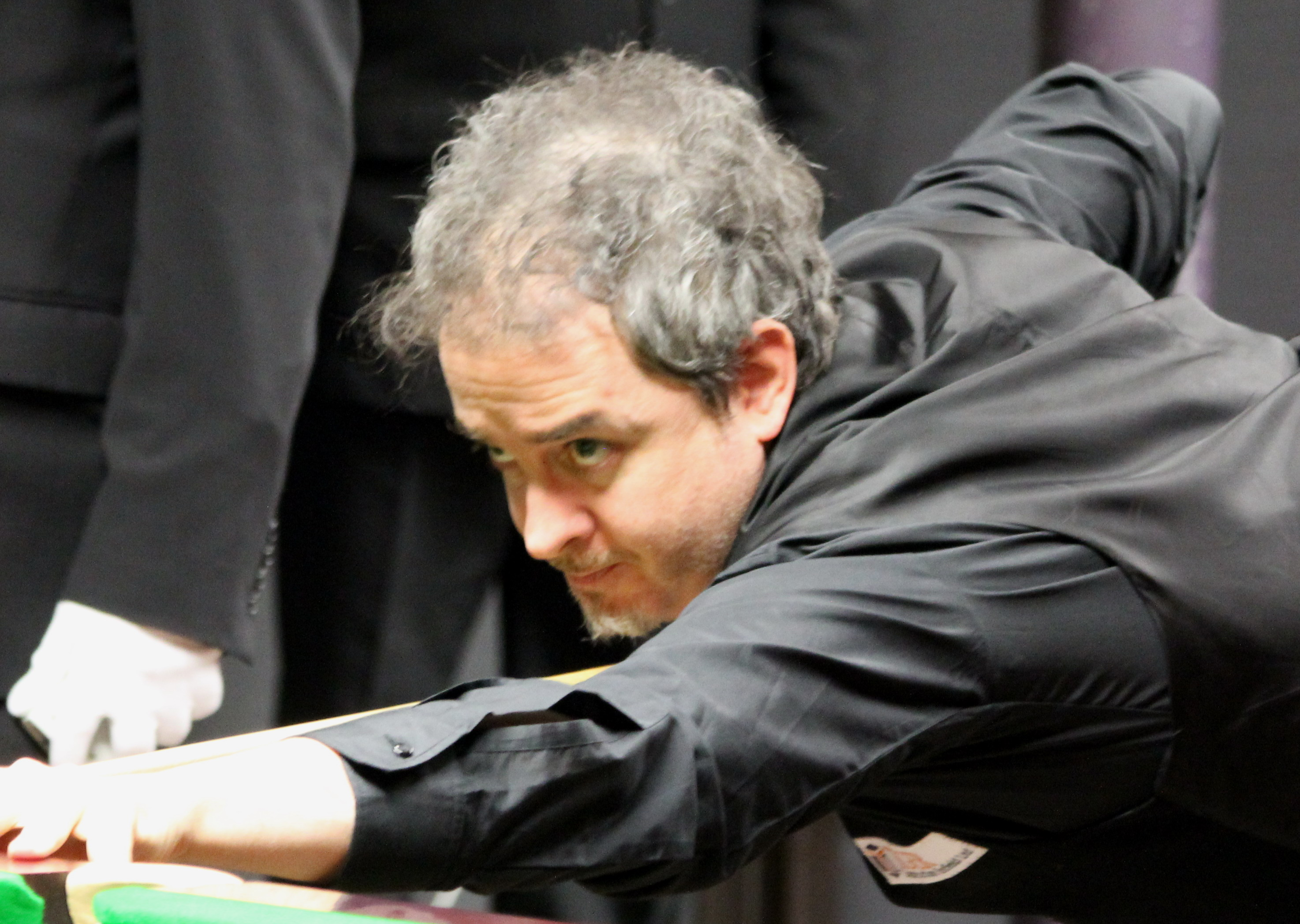 Anthony Hamilton beim Paul Hunter Classic 2016